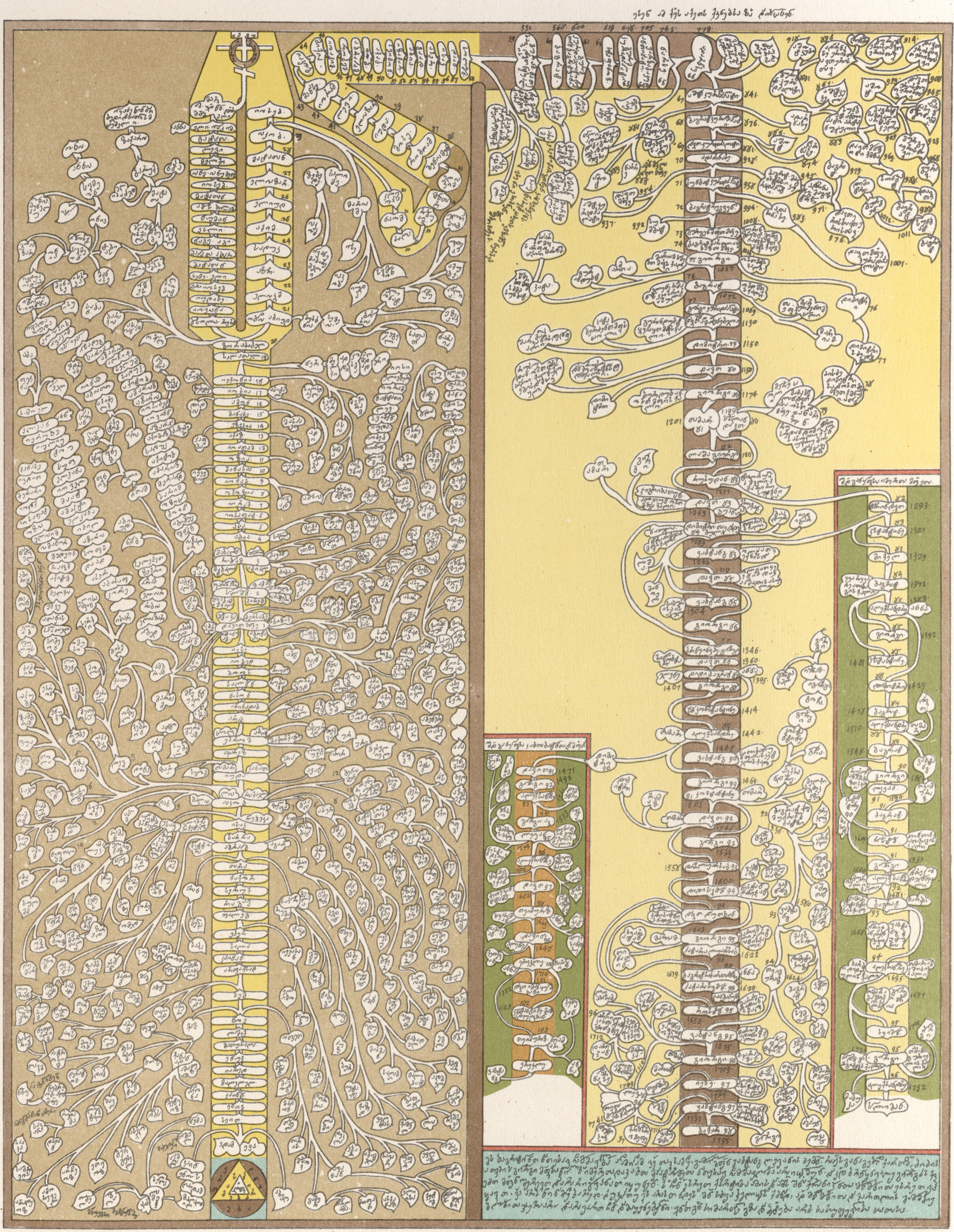 Vaxushti Bagrationi Genealogy of Georgian Kingdom